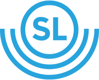 Storstockholms Lokaltrafik logotype.